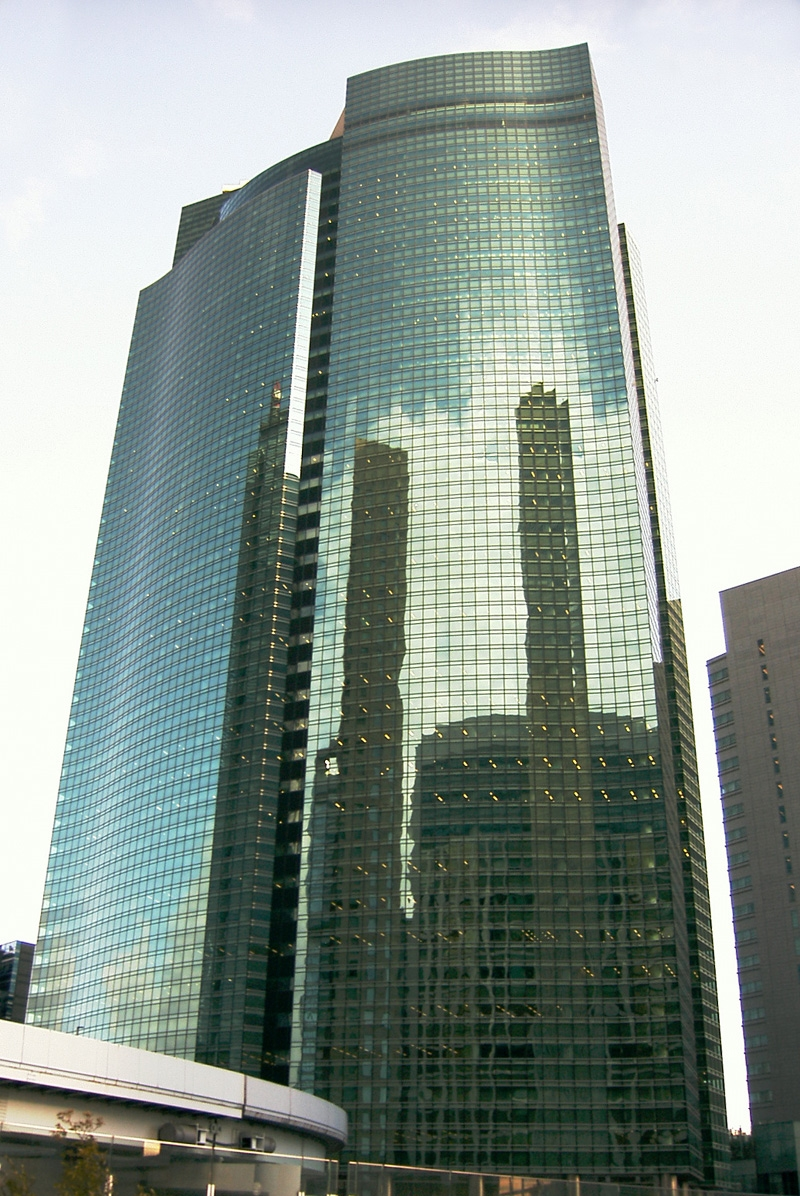 Shiodome City Center, a member of the Shiodome complex at Higashishinbashi, Minato, Tokyo, Japan - It is the headquarters for All Nippon Airways and Fujitsu